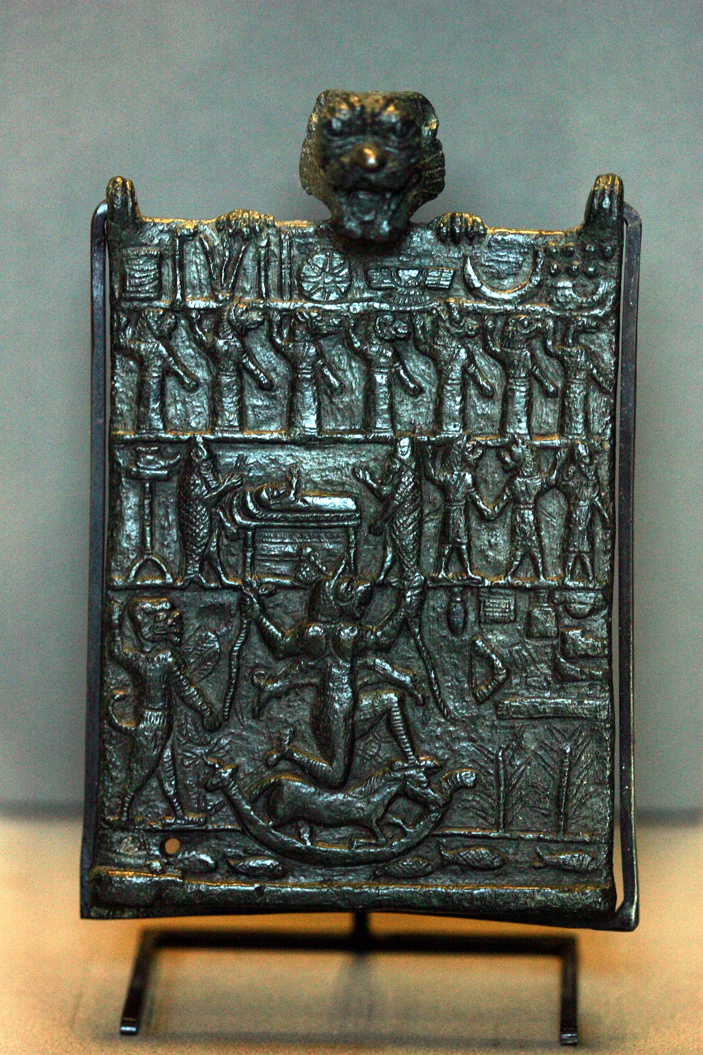 ArtistUnknownDescription Protection plaque against Lamashtu [1] Neo-Assyrian era Bronze Dimensions3.80 cm high, 8.80 wide, 2.50 cm deepCurrent location (Inventory)Louvre Museum Native nameMusée du LouvreLocationParisCoordinates48° 51′ 37″ N, 2° 20′ 15″ E Established1793Website control : Q19675 VIAF: 257711507 ISNI: 0000 0001 2260 177X ULAN: 500125189 LCCN: n80020283 NLA: 35912436 WorldCat Richelieu, Rez-de-chaussée, Mésopotamie - Syrie du Nord. Assyrie : Til Barsip, Arslan Tash, Nimrud, Ninive, Salle 6Accession numberAO 22205Source/PhotographerRama Protection plaque against Lamashtu [1] Neo-Assyrian era Bronze